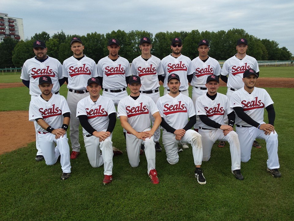 Muzi 2014 A2